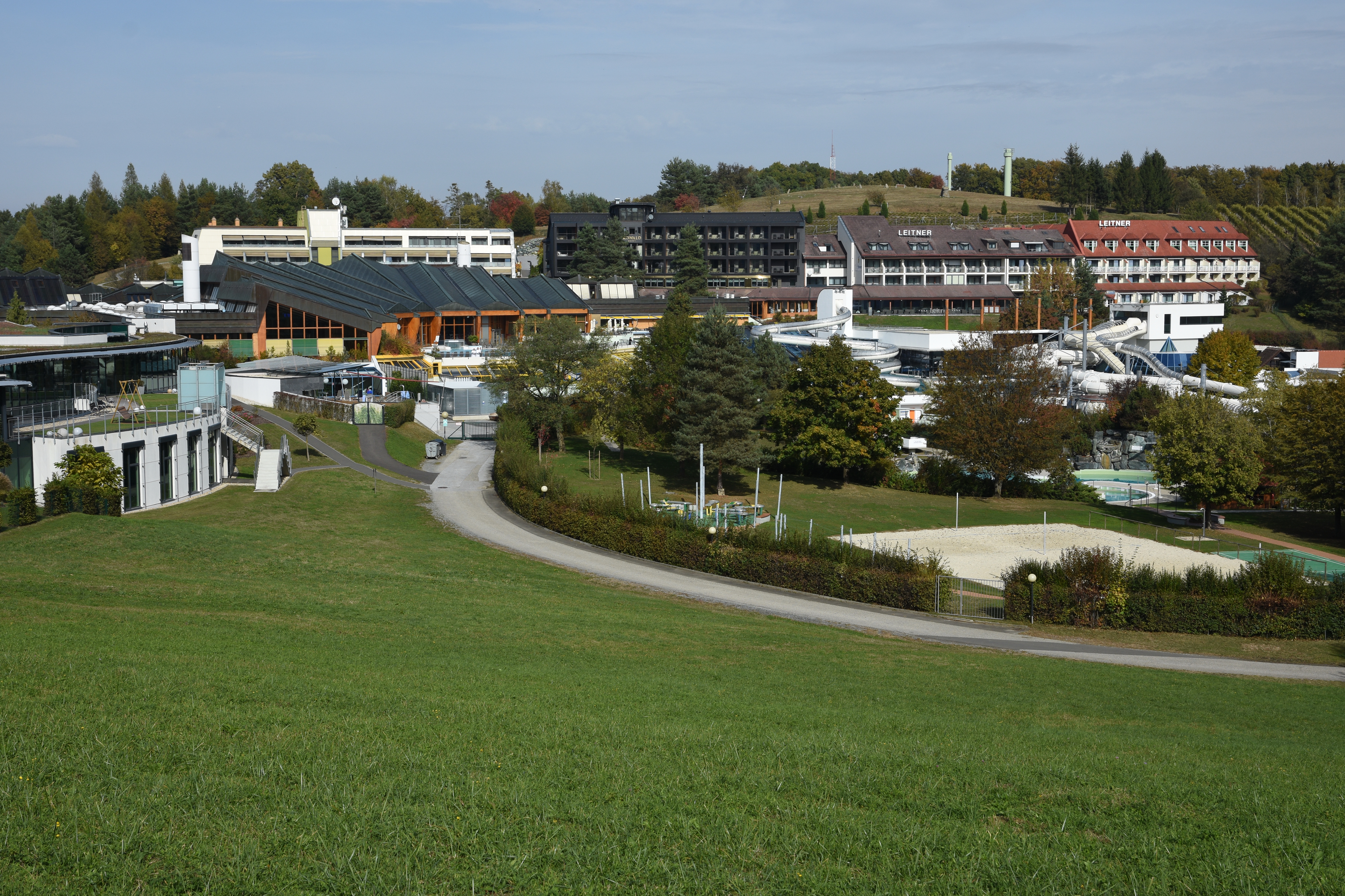 Therme Loipersdorf